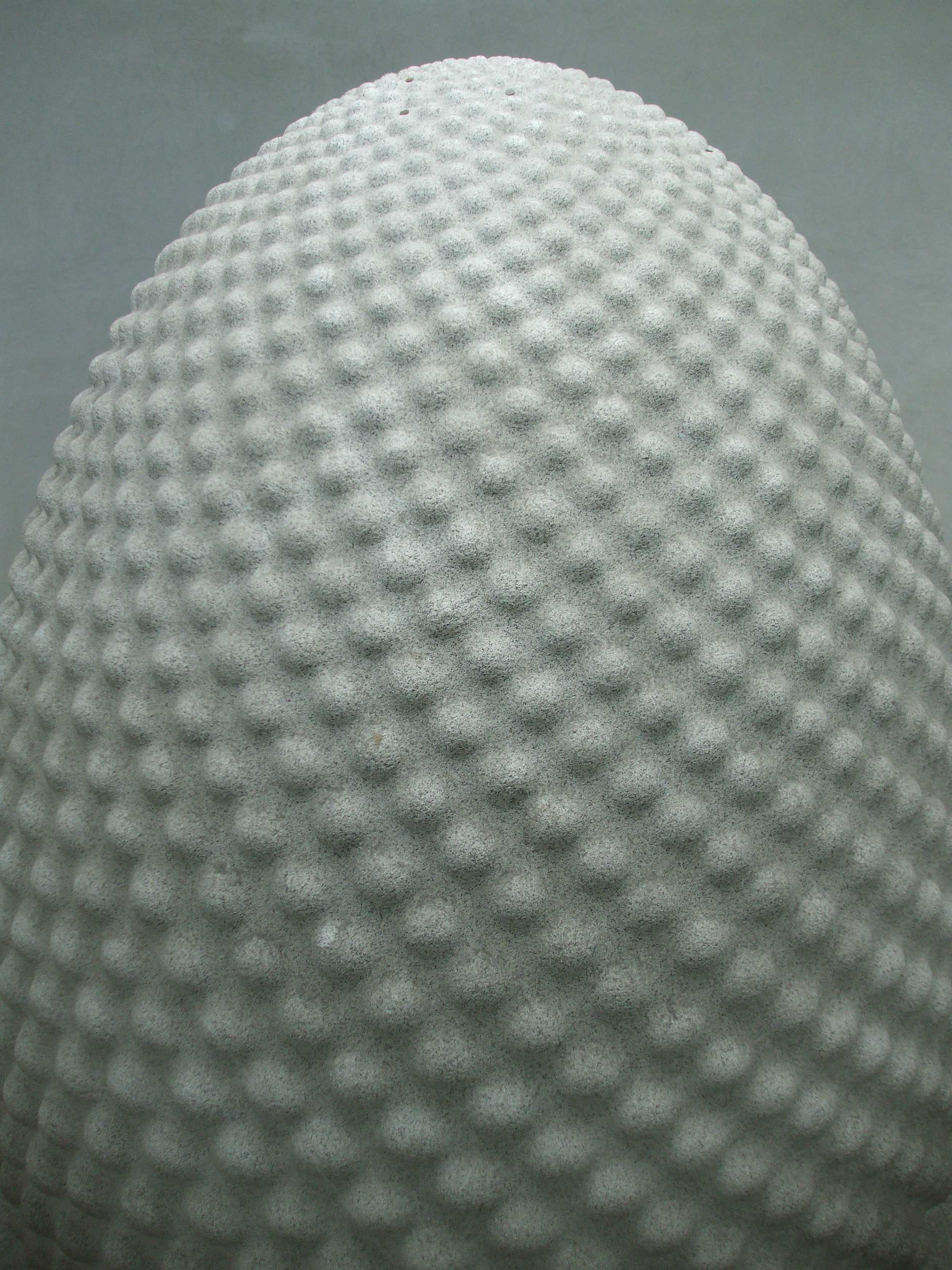 The Seed in Eden Project